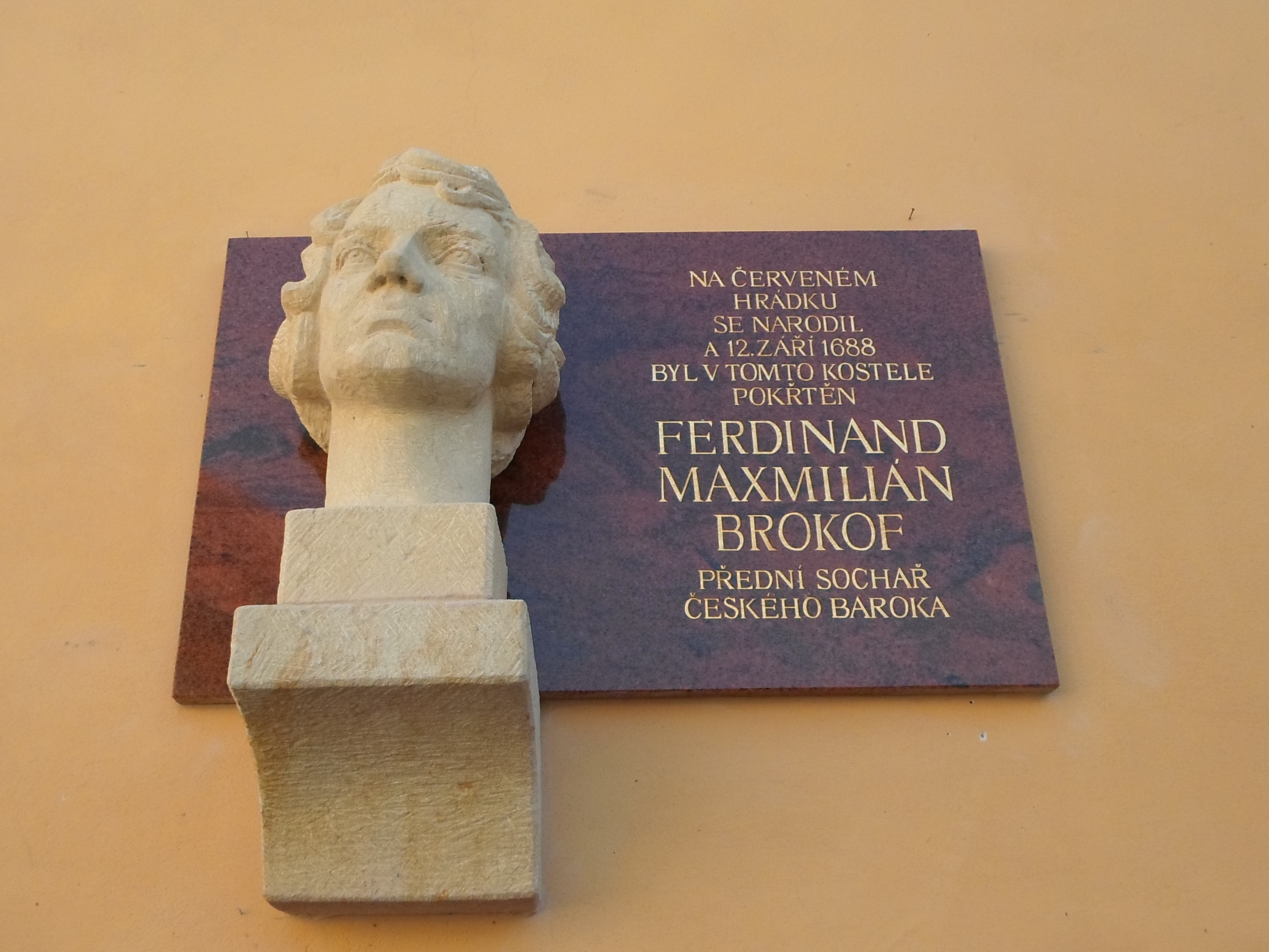 F.M.Brokoff Bust, Jirkov